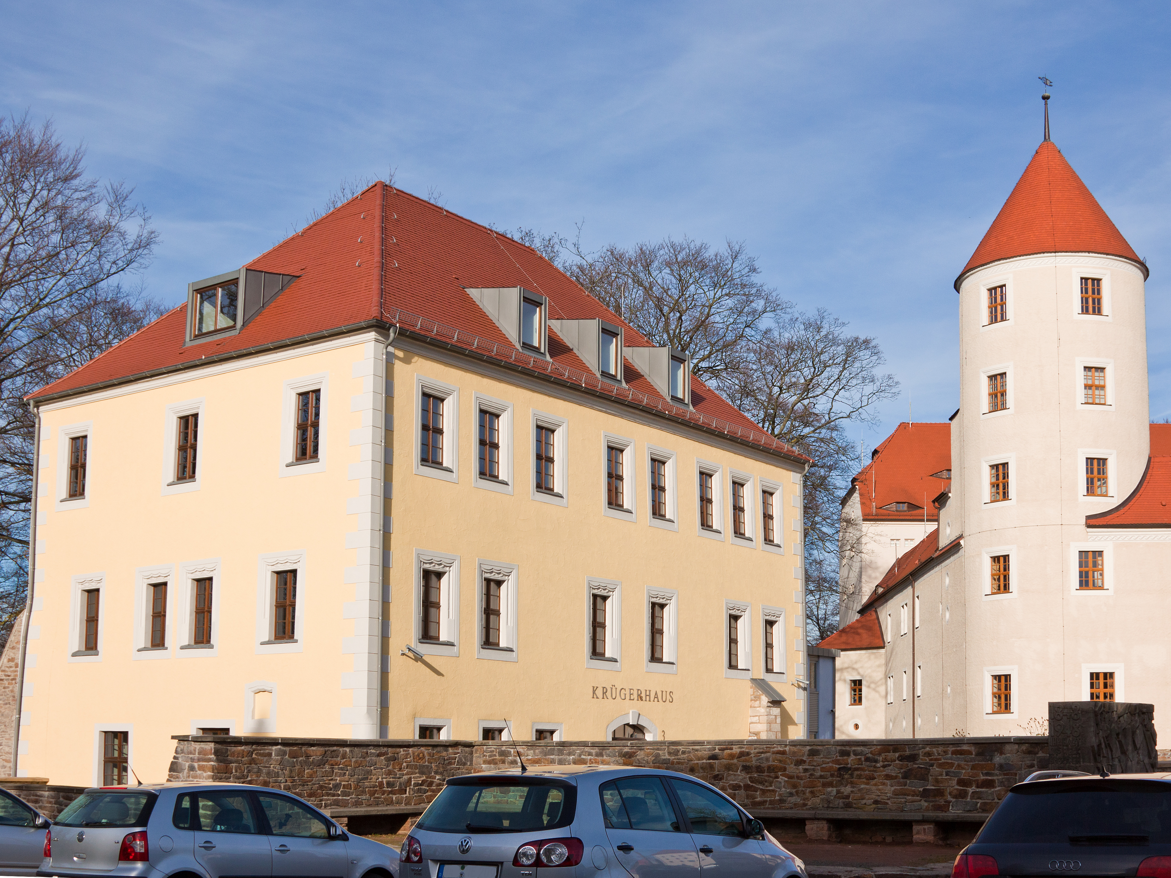 Freiberg, Krügerhaus and Castle Freudenstein